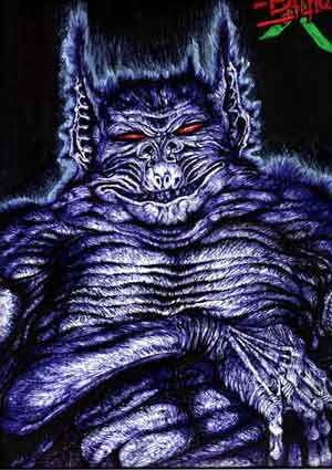 I drew this image of the 'lovecraftian' entity Tsathoggua somewhere in the early 1990s. I gifted the original work to the Church of Satan in Amsterdam somewhere in 1996-1997 where it is still on display. It has not been published in any other way. Copyright of the drawing remains with me. I have several different scans of it. As far as I am concerned I allow wikipedia to use it as they want it.